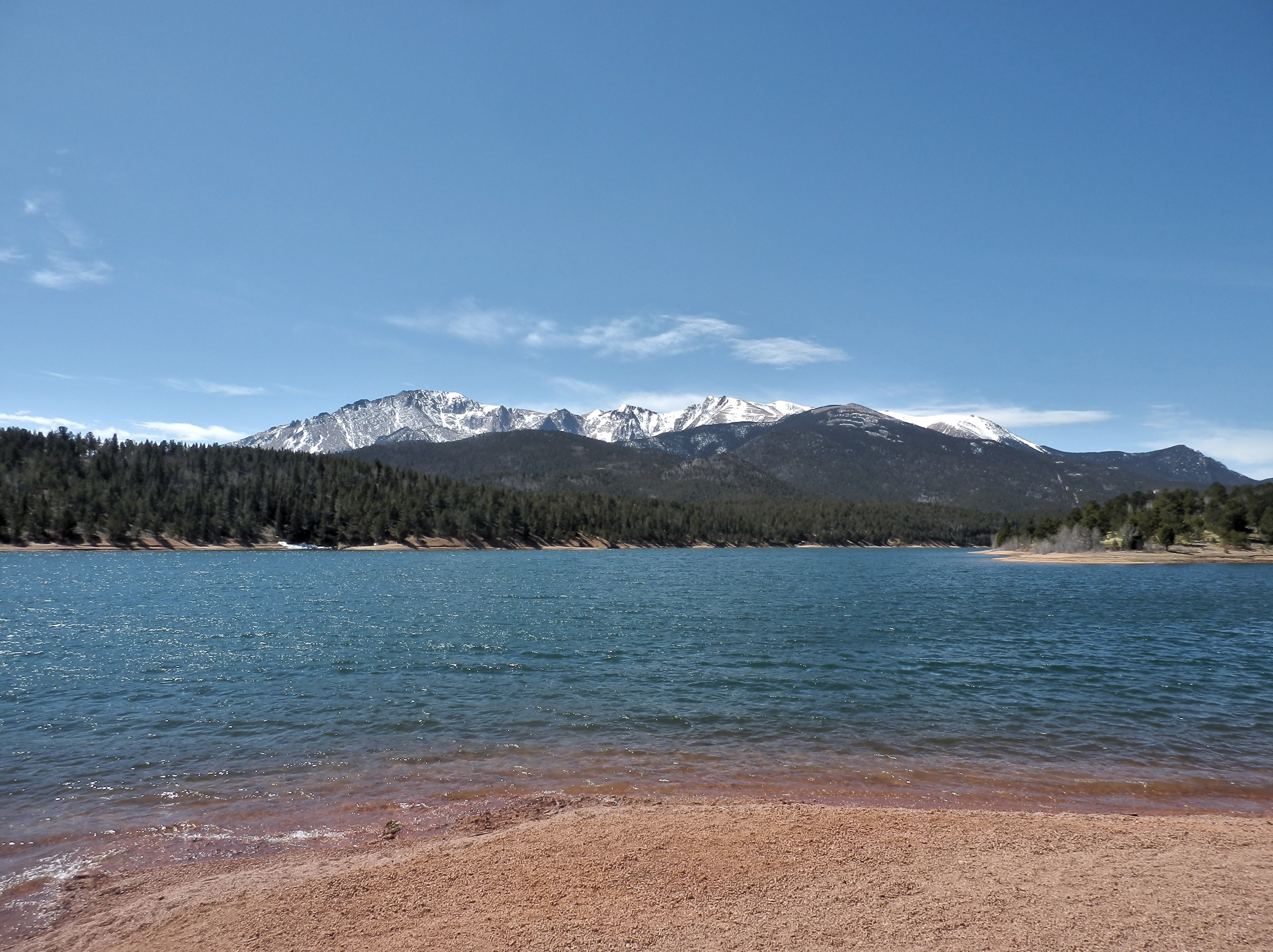 Crystal Creek Reservoir